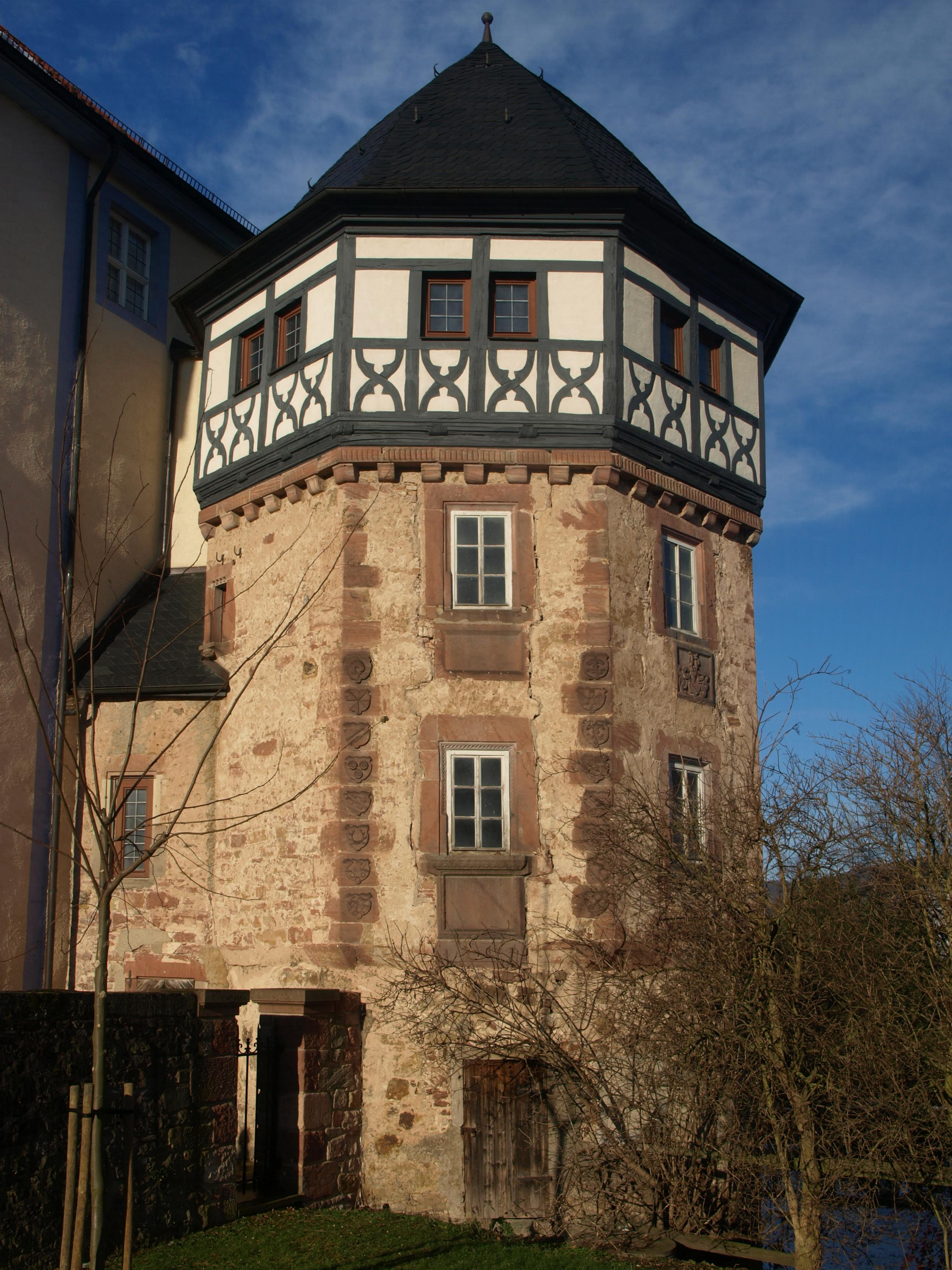 Tower of the "Blue Castle". Taken from the street Schloß-Straße